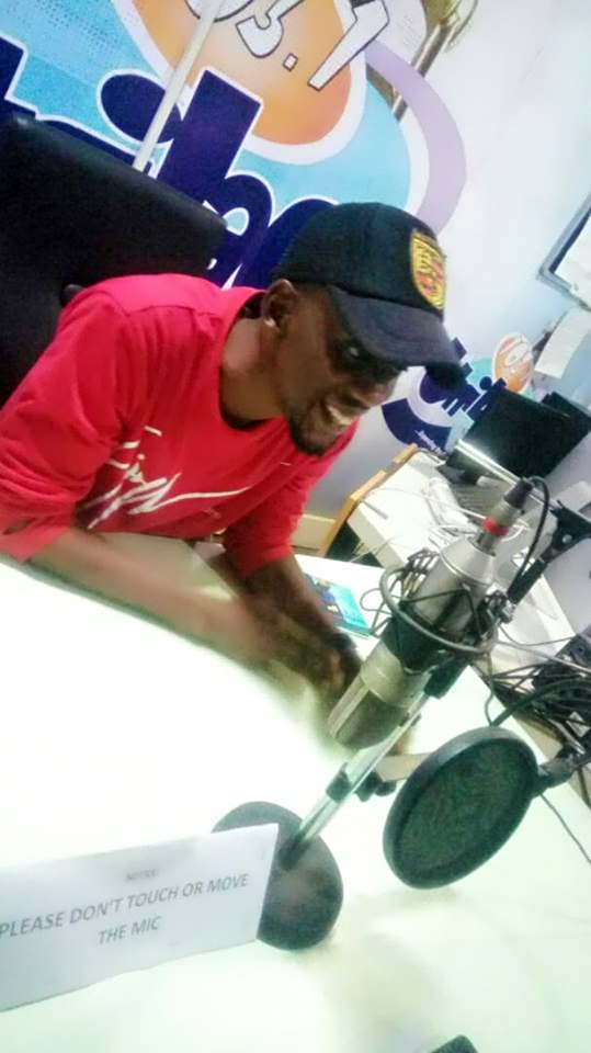 St. Chika during a radio interview at Unilag FM. Picture taken with my mobile phone. I was one of the journalist present during this interview.